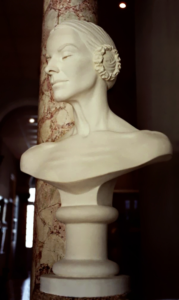 ▪ Title: Alicia-Giselle. Beyond the time. Bust of the Prima Ballerina Alicia Alonso. ▪ Author: Carlos Enrique Prado ▪ Technique: Plaster cast ▪ Dimensions: 75 x 45 x 30 cm ▪ Dates: 1998 ▪ Collection National Museum of the Dance, Havana, Cuba.